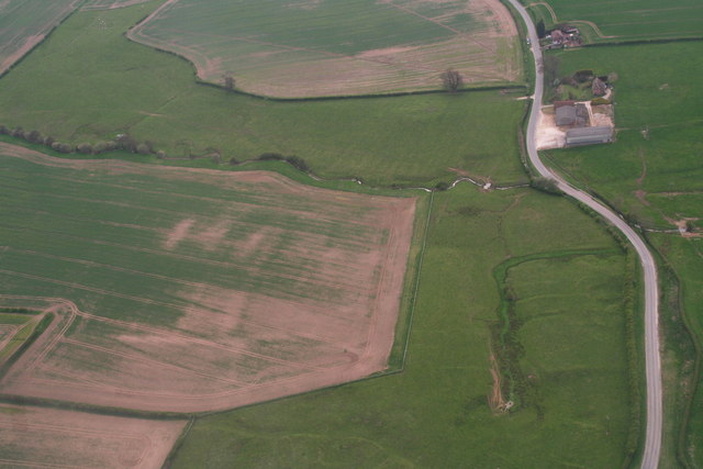 Calceby: spring and Beck